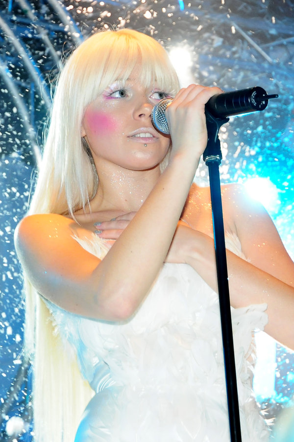 Estonian singer Kerli Kõiv in concert. (31 august 2008) Photo by Deviantart user Maria Vahuri; The user gave his permission here.